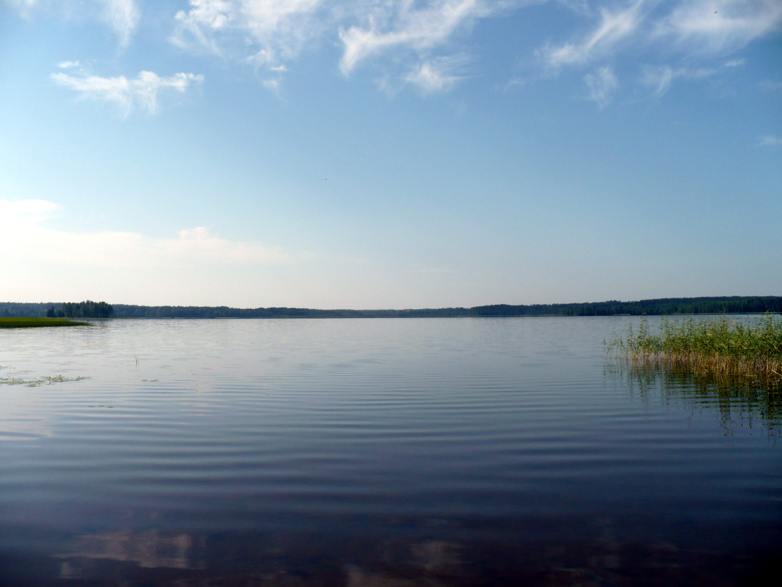 Lake Peretno (Okulovskiy Raion, Novgorodskaya Oblast, Russia)